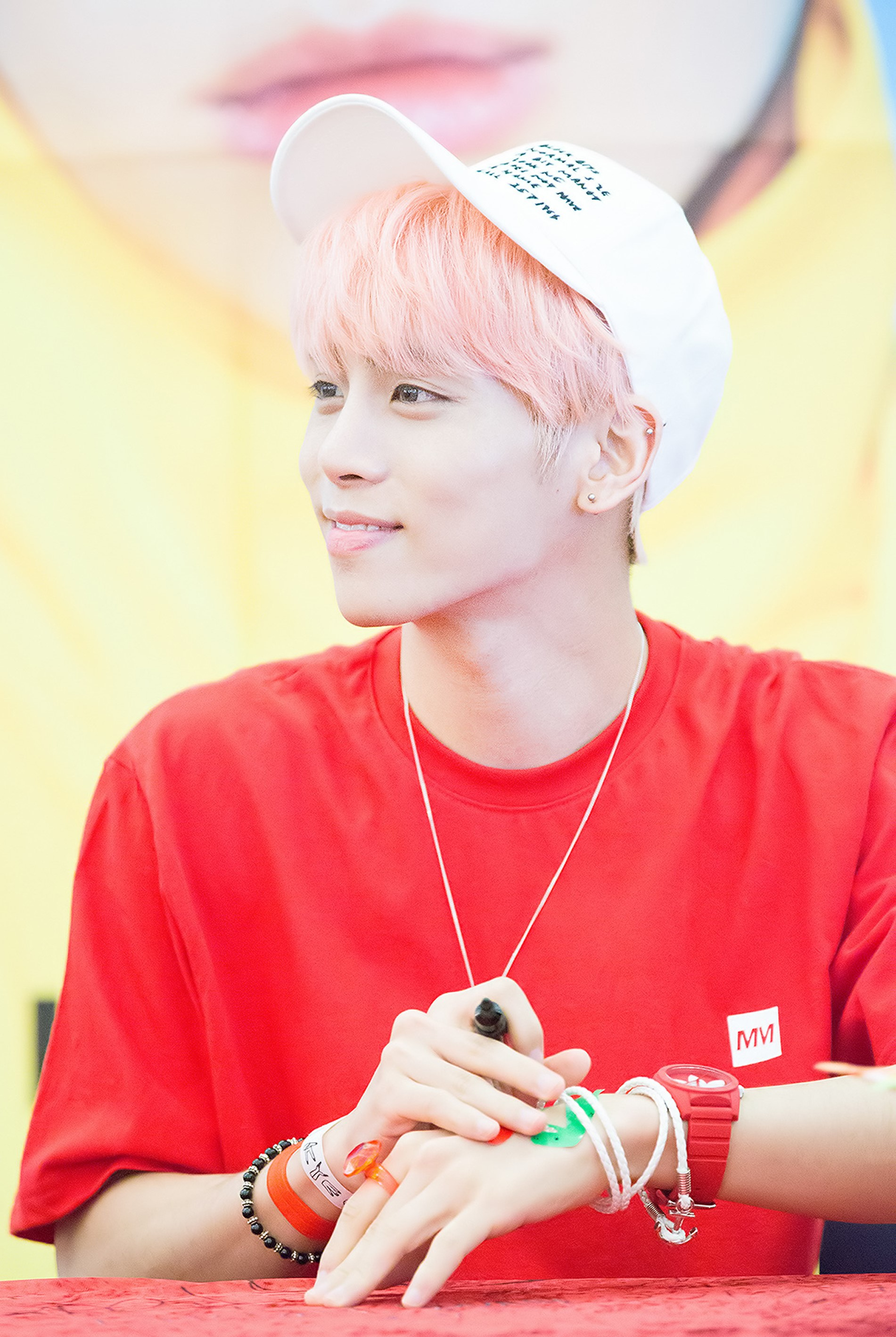 Jonghyun at a fansigning in Busan, on June 6, 2016.